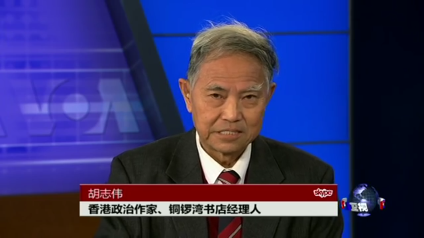 Screenshot of Woo Chih Wai, a Hong Kong writer, at a televised interview by VOA Chinese on 7 Dec 2016. 粵語: 2016年12月7號，香港作家胡志偉接受美國之音中文網訪問，呢幅係影片截圖。